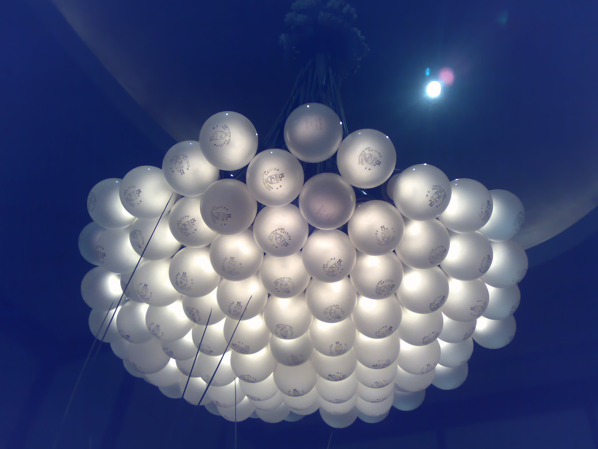 85 Bulbs by Rodi Graumans of Droog Design